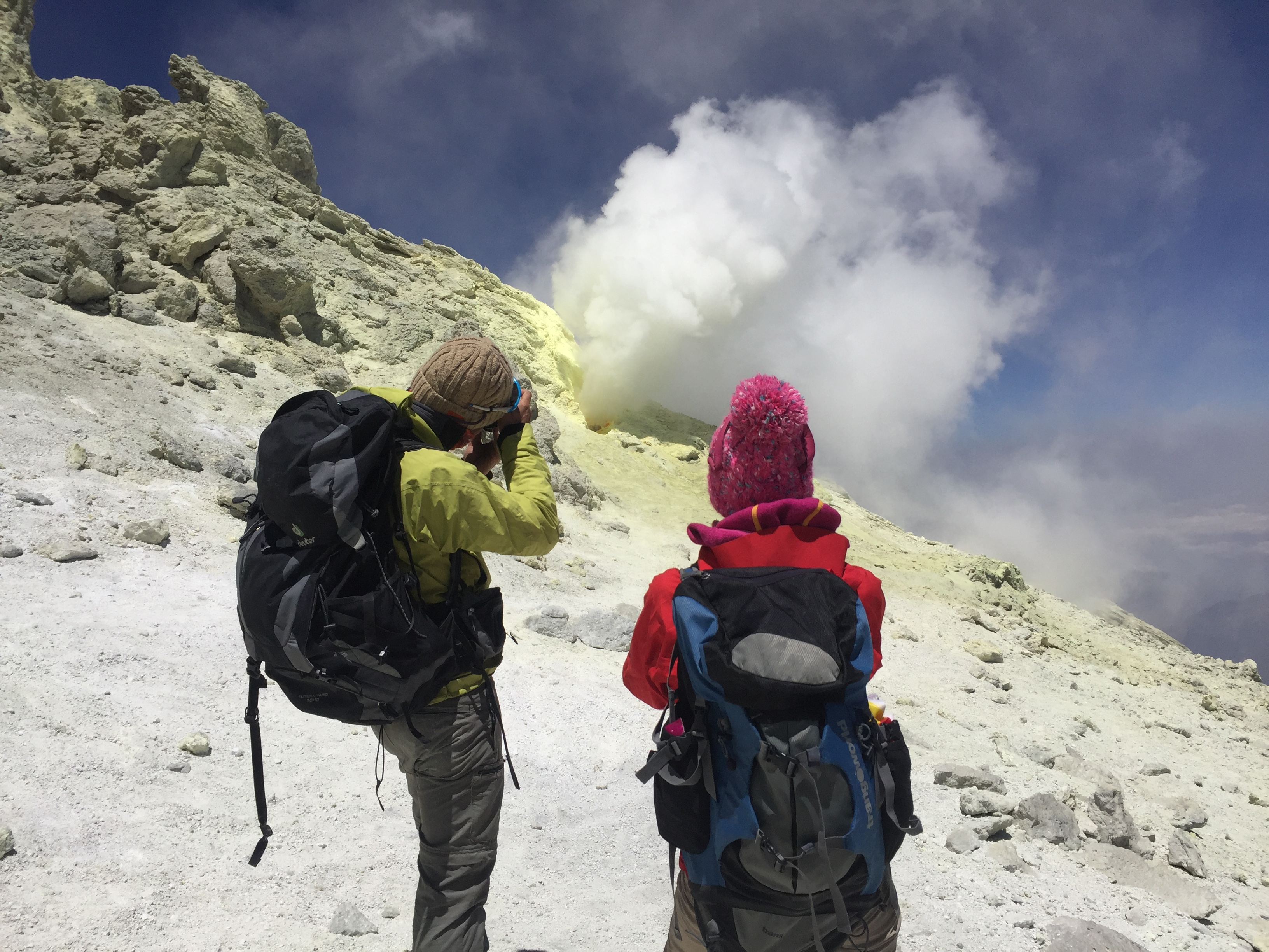 Damavand Smoke Hole at 5550m